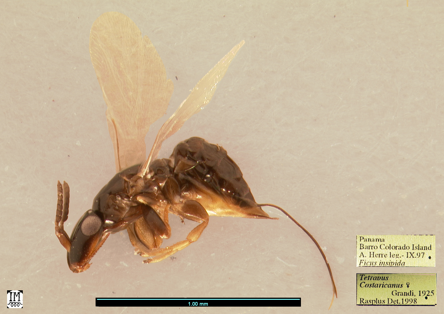 Tetrapus costaricanus, specimen from Panama, Barro Colordo Island